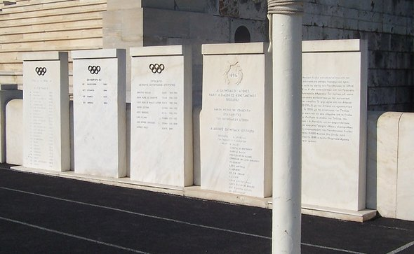 Panathenaic Stadium. Athenas. This is a retouched picture, which means that it has been digitally altered from its original version.